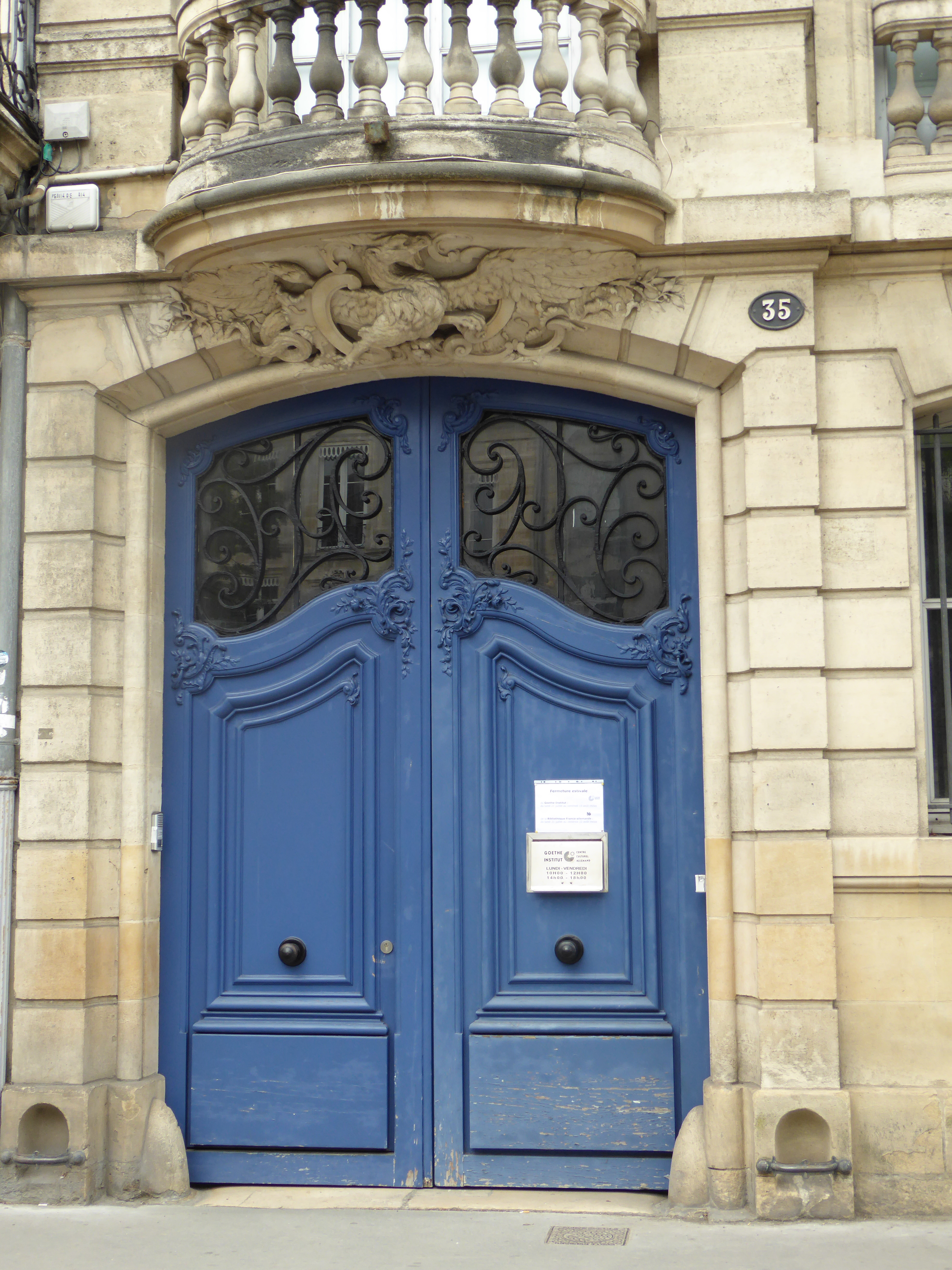 Goethe-Institut, Cours de Verdun, Bordeaux, France, July 2014